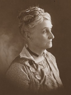 Edith Cowan, taken the year she became the first Australian woman elected to parliament